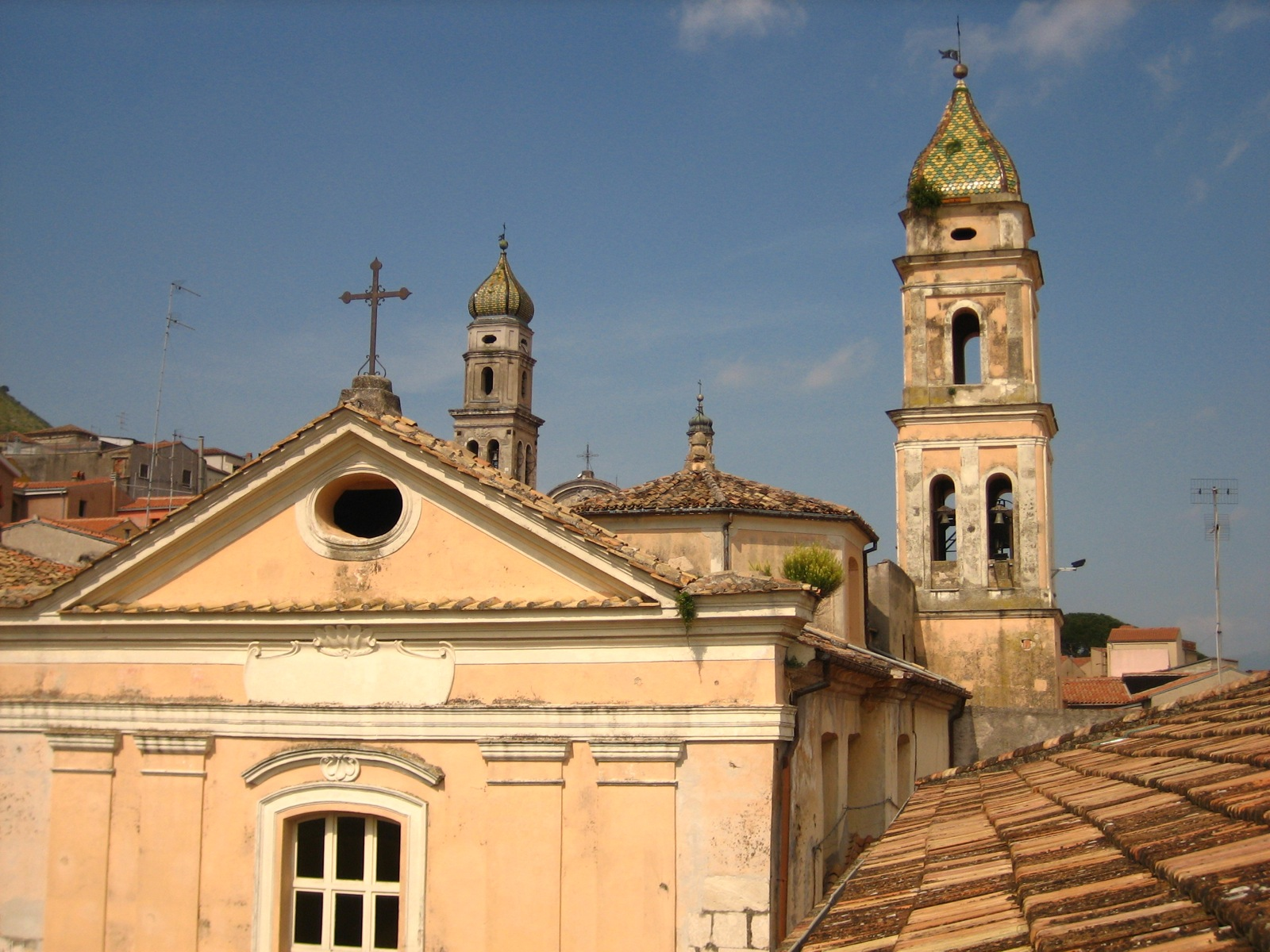 Venafro, facade and bell tower of the Church of Christ with the bell tower of the Church of the Annunciation in background.